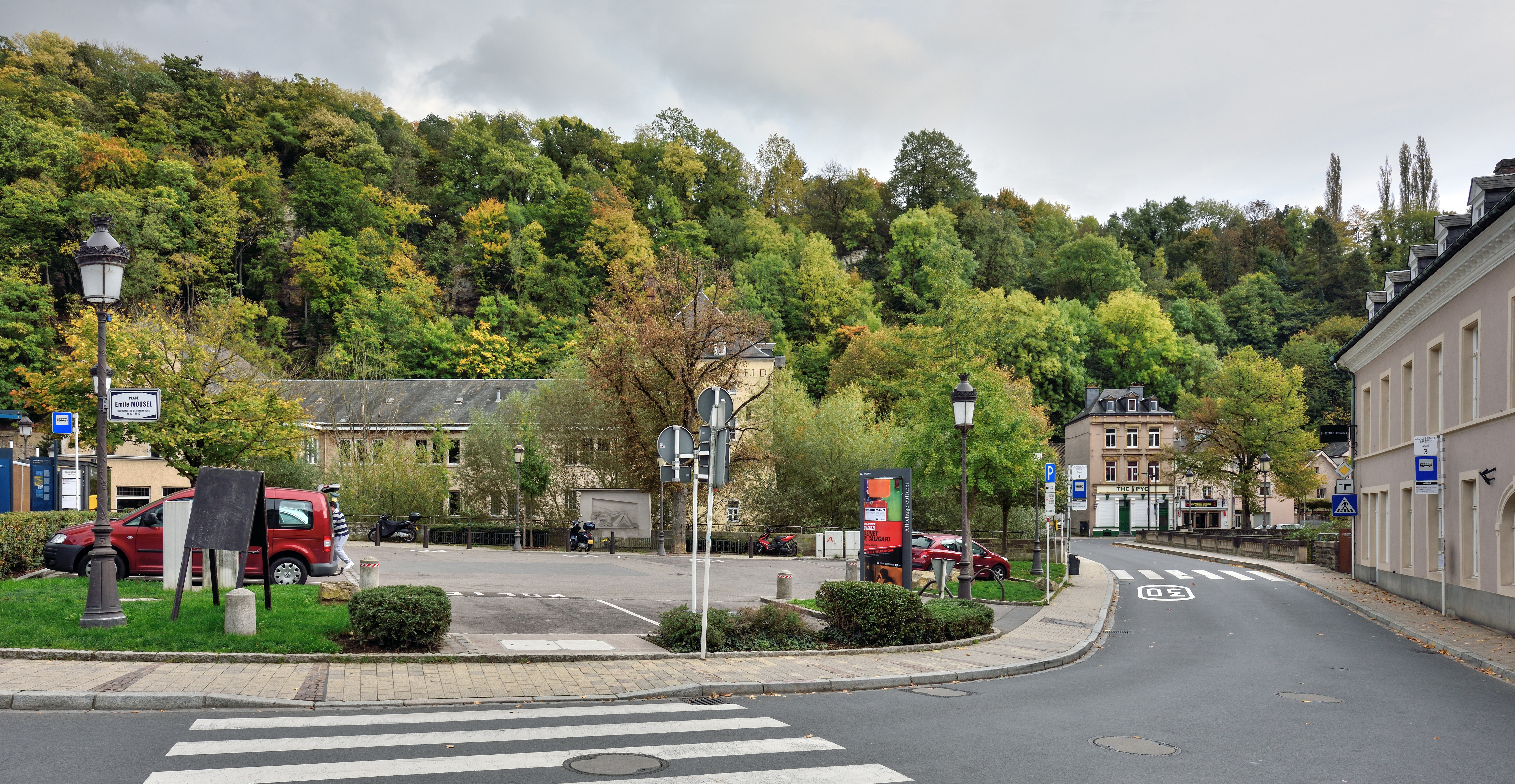 Luxembourg City, quarter of Clausen: Emile-Mousel square in October 2017. The bridge over the Alzette river is seen at the right side of the image.